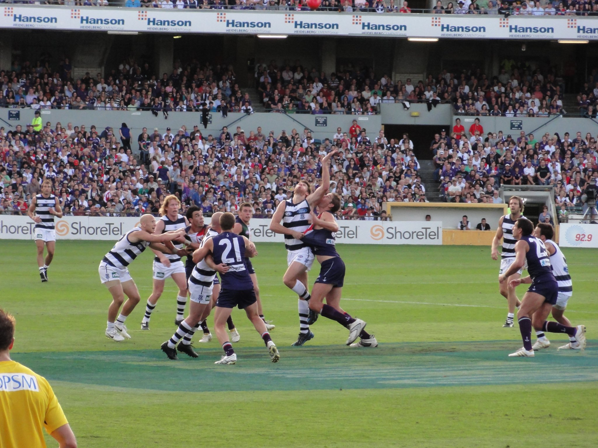 The two ruckmen of Geelong and Fremantle Football Clubs compete for the ball.